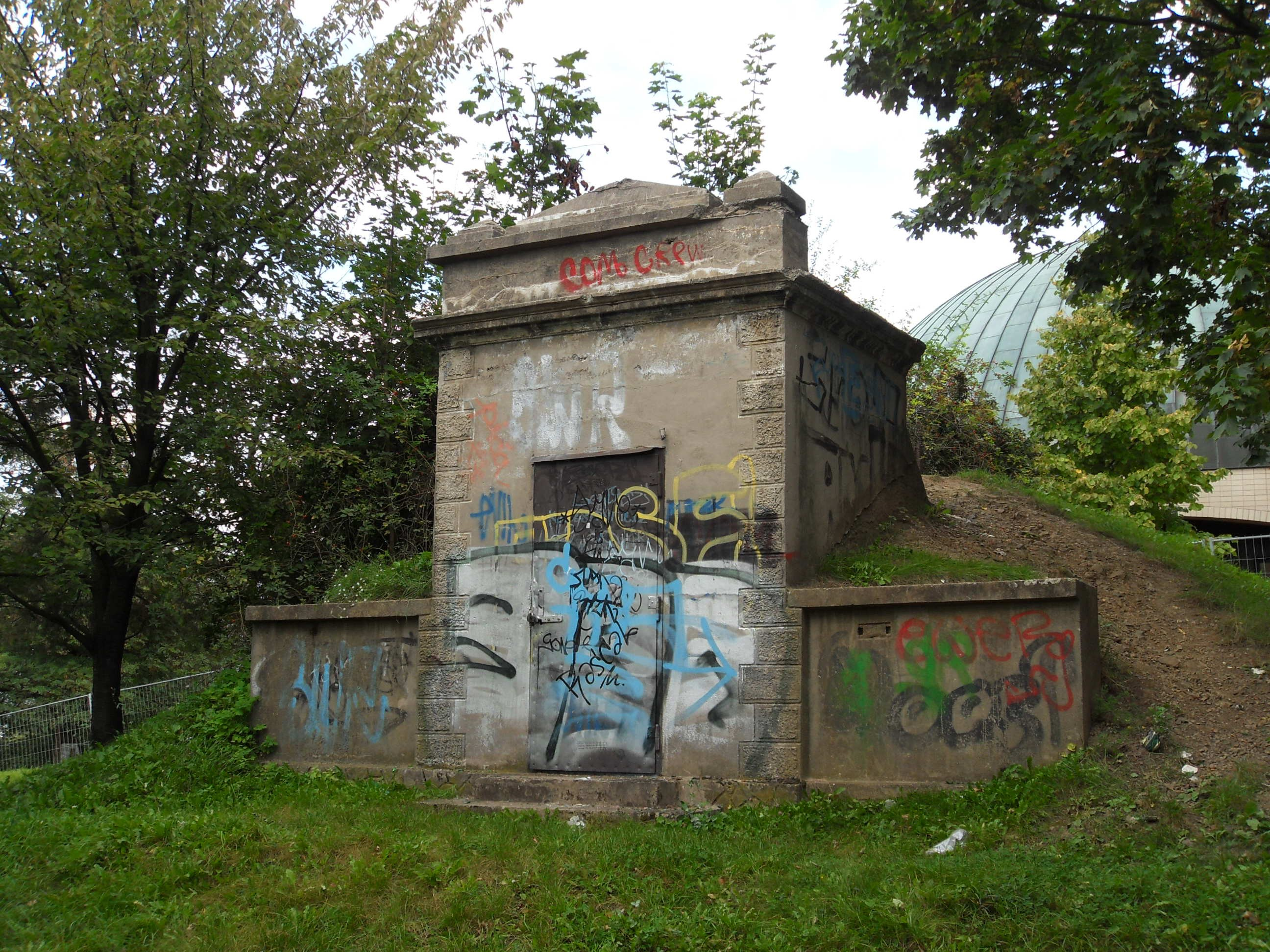 Former water tank near to Observatory and Planetarium in Brno, Czech Republic